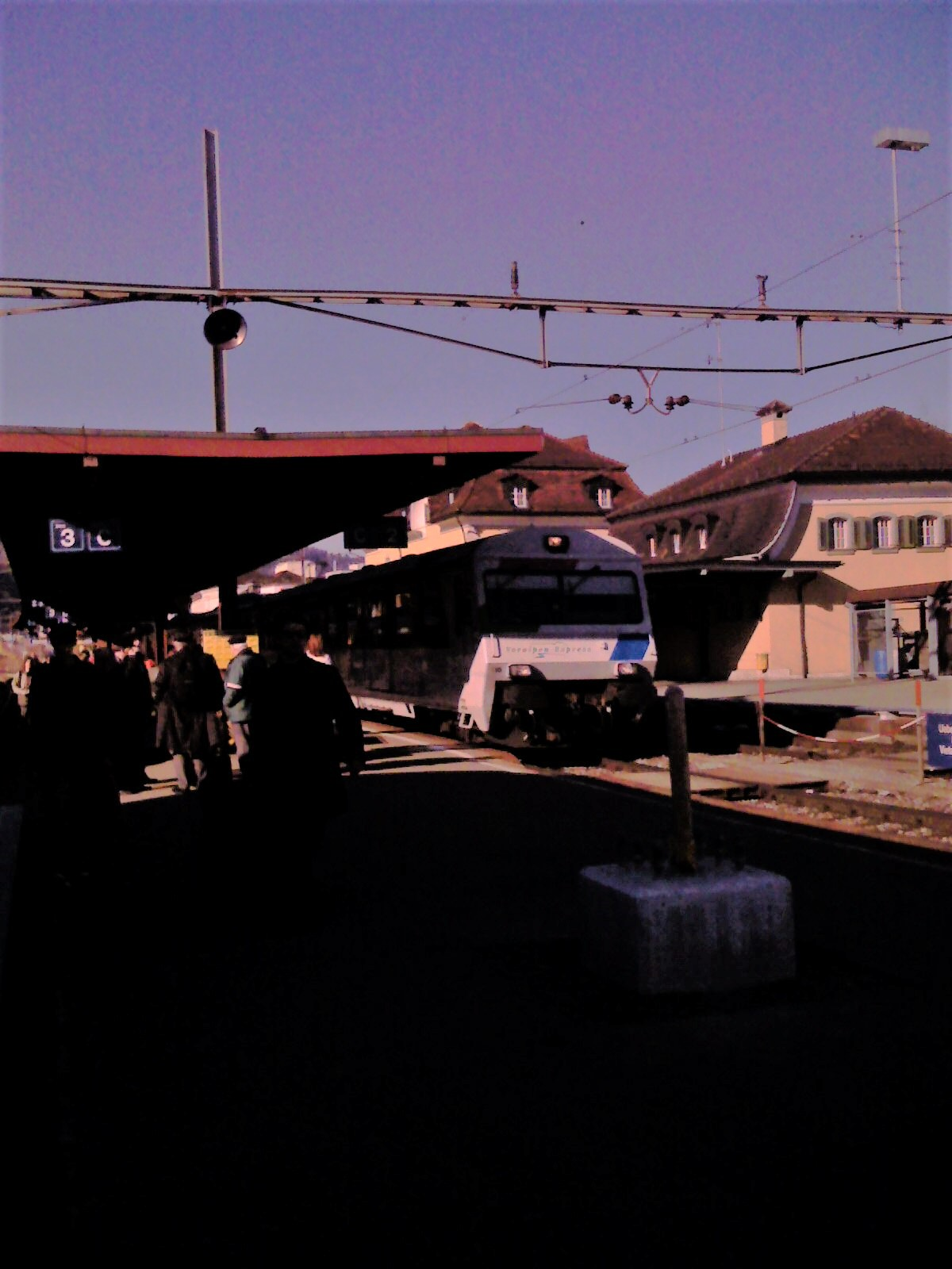 Wattwil railway station, Toggenburg, Canton of St. Gall, Switzerland - Wattwil stacidomo, Togenburgo, Kantono Sankt-Galo, Svislando